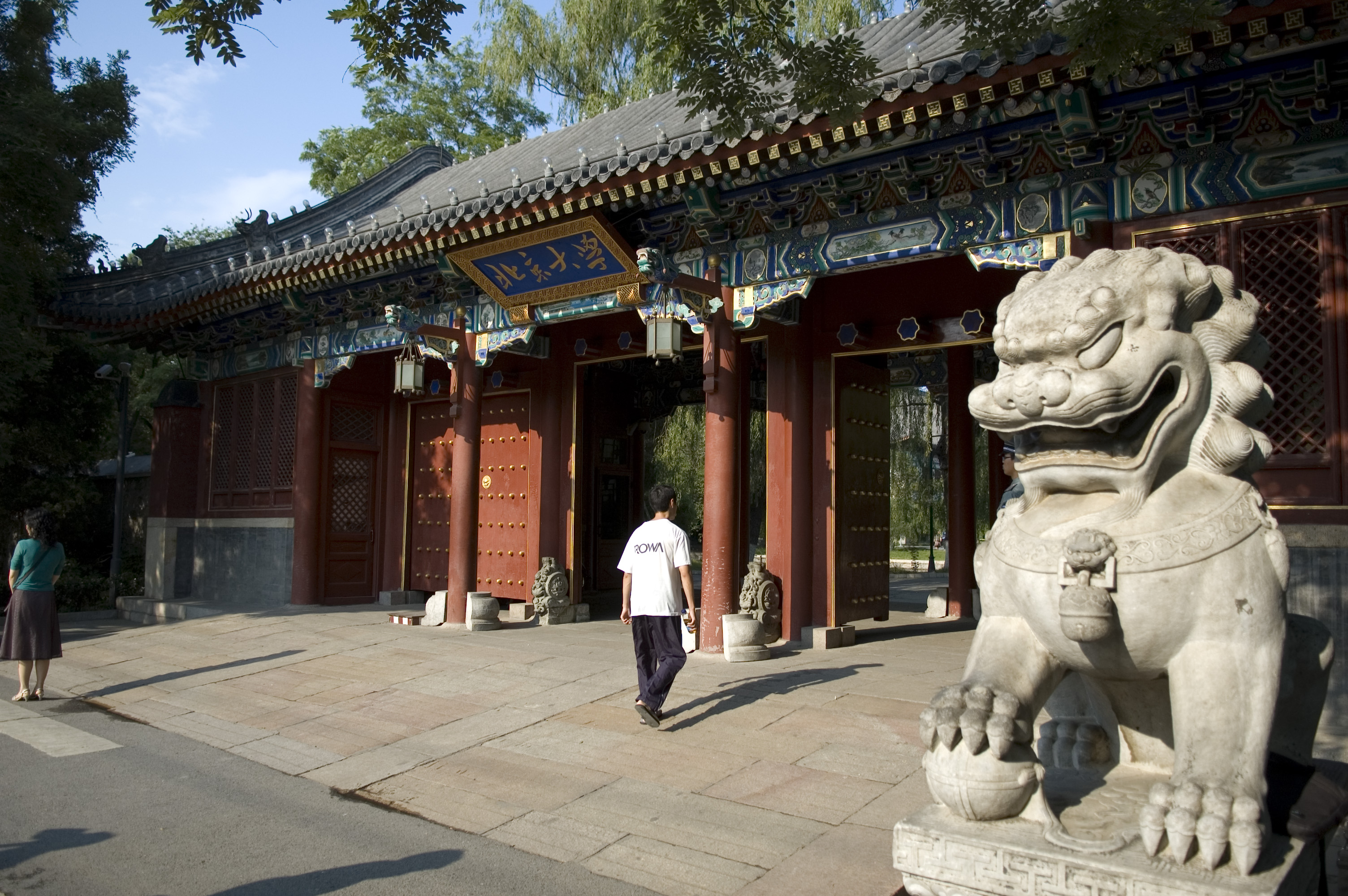 An entrance to the Peking University